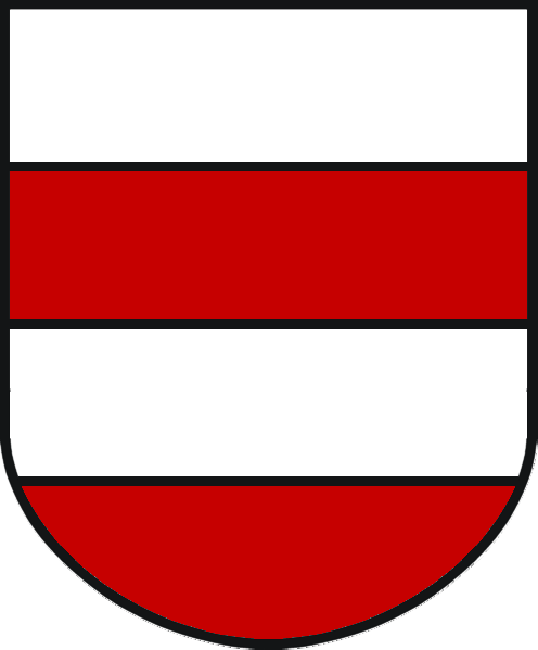 coat of arms of the Austrian Dukes of Hohenberg, created in 1917